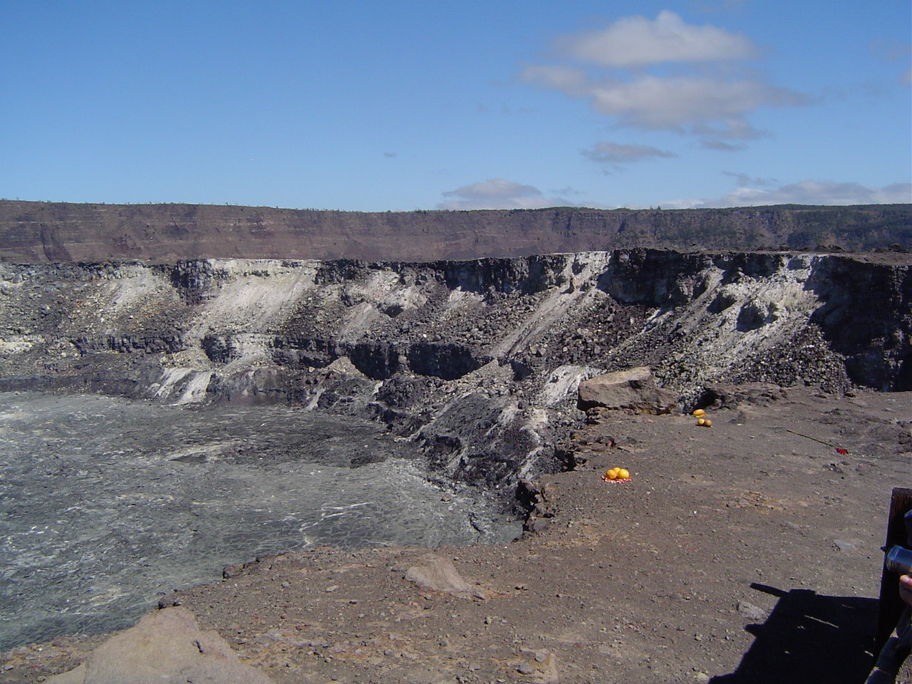 Offerings of fruit at Kilauea caldera, the Big Island of Hawaii